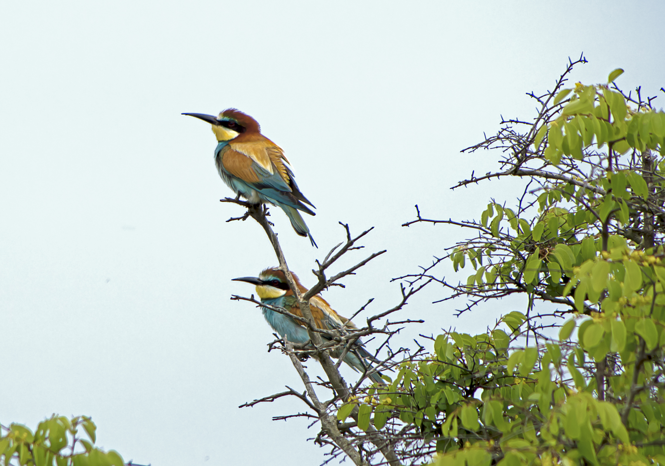 European bee-eater